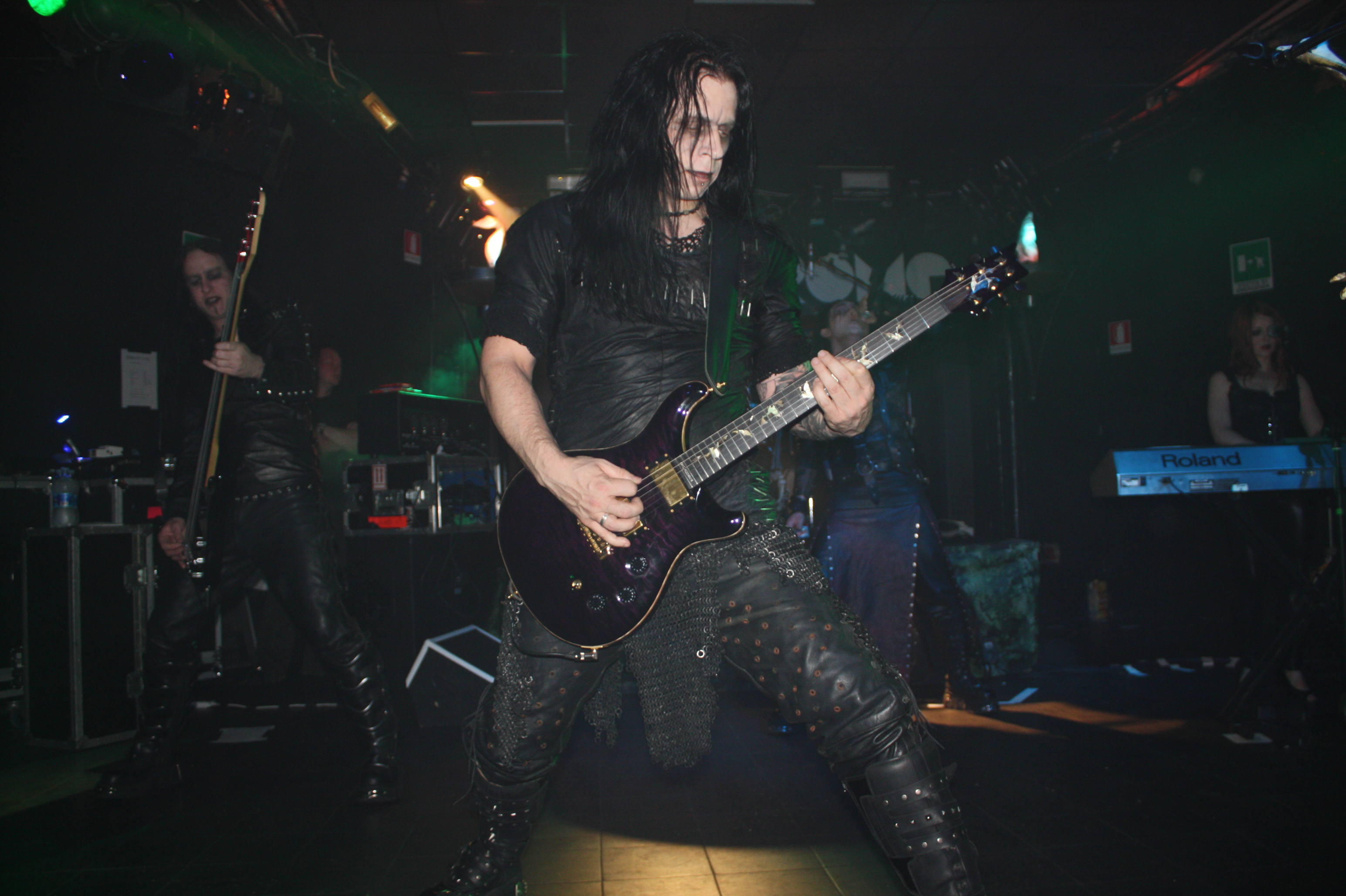 Cradle of Filth in Madrid 2009